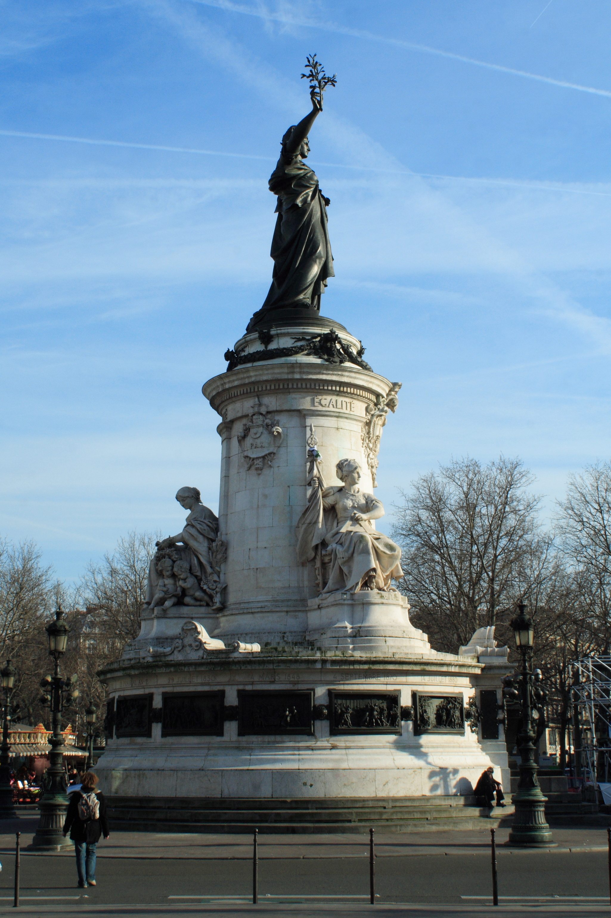 Side view of the monument in the center of the Place de la République (Paris).Statues: above: Marianne below right: Égalité (Equality) below left: Fraternité (Brotherhood) below behind (not visible in photo): Liberté (Freedom)